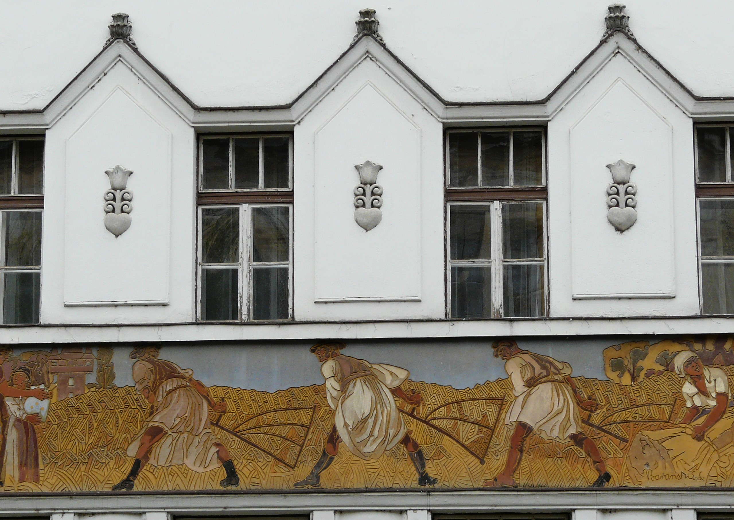 Sgraffito, wall decor (1927) by Hungarian painter László Baranski. Facade of a house in Szarvas (Hungary).